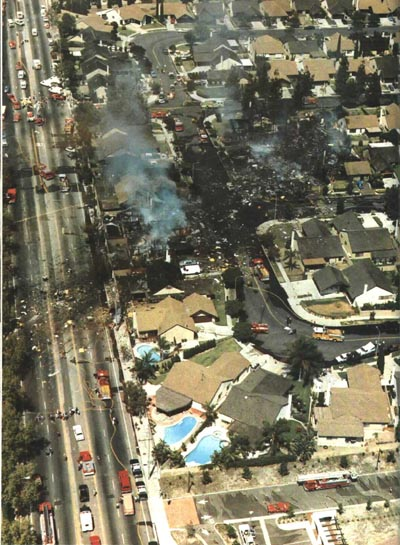 Aerial View of Aeroméxico Flight 498 Crash Site